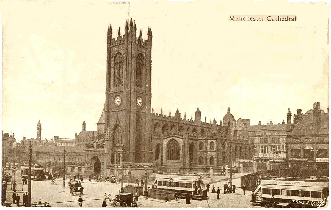 Manchester Cathedral, as seen in 1903. To its front on the road are electric trams.